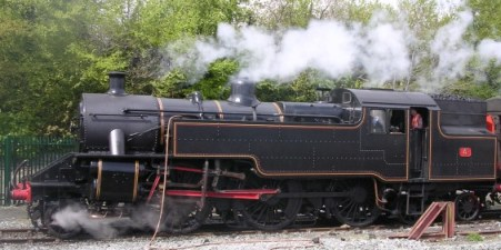 RPSI WT Class loco in Mallow